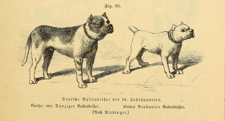 Caption: "German Bullenbeißer of the 18th century. Big or Danzig Bullenbeißer. Small Brabant Bullenbeißer. ( [drawn] After Riedinger.)